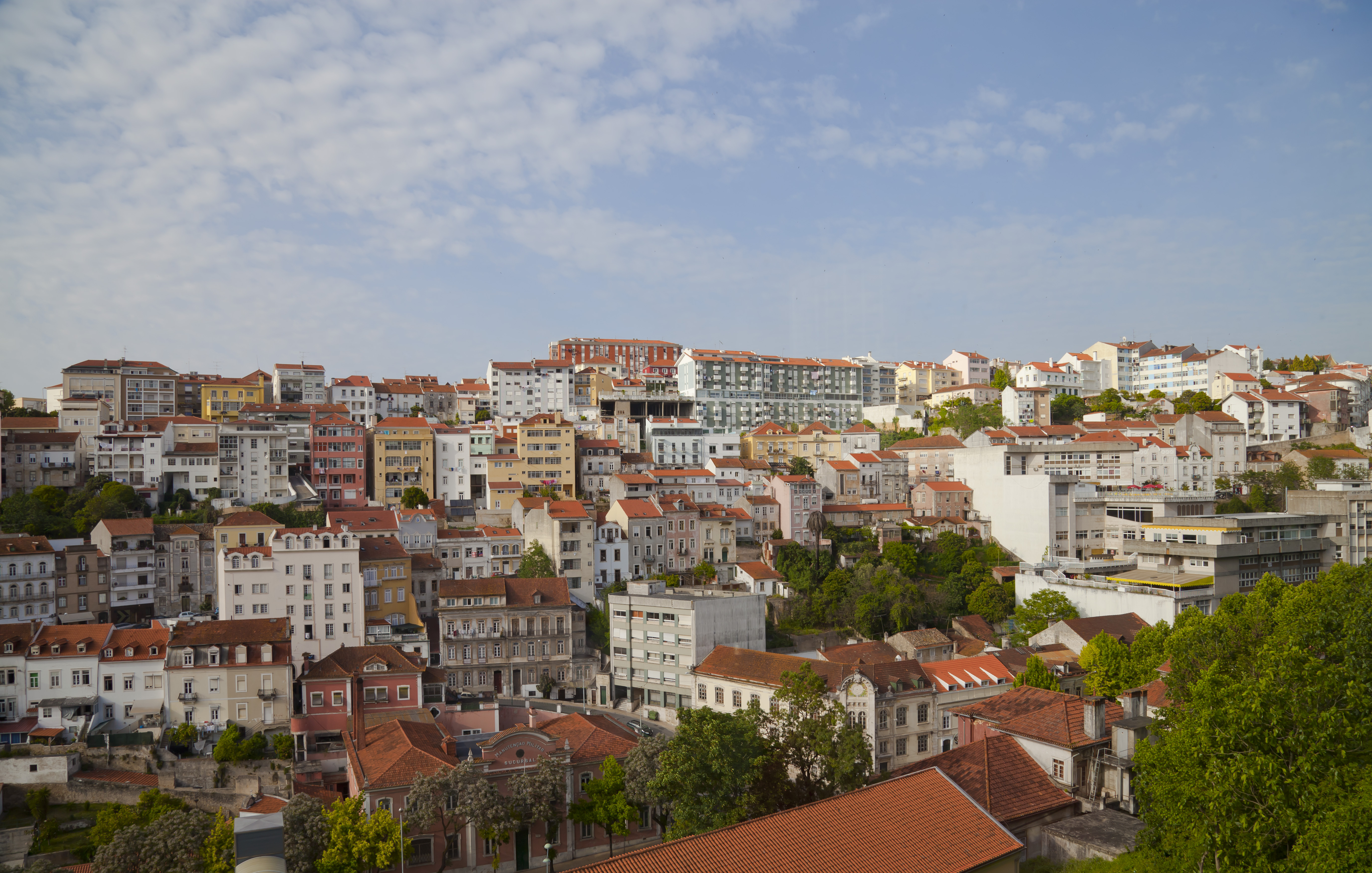 View of Coimbra from the University, Portugal